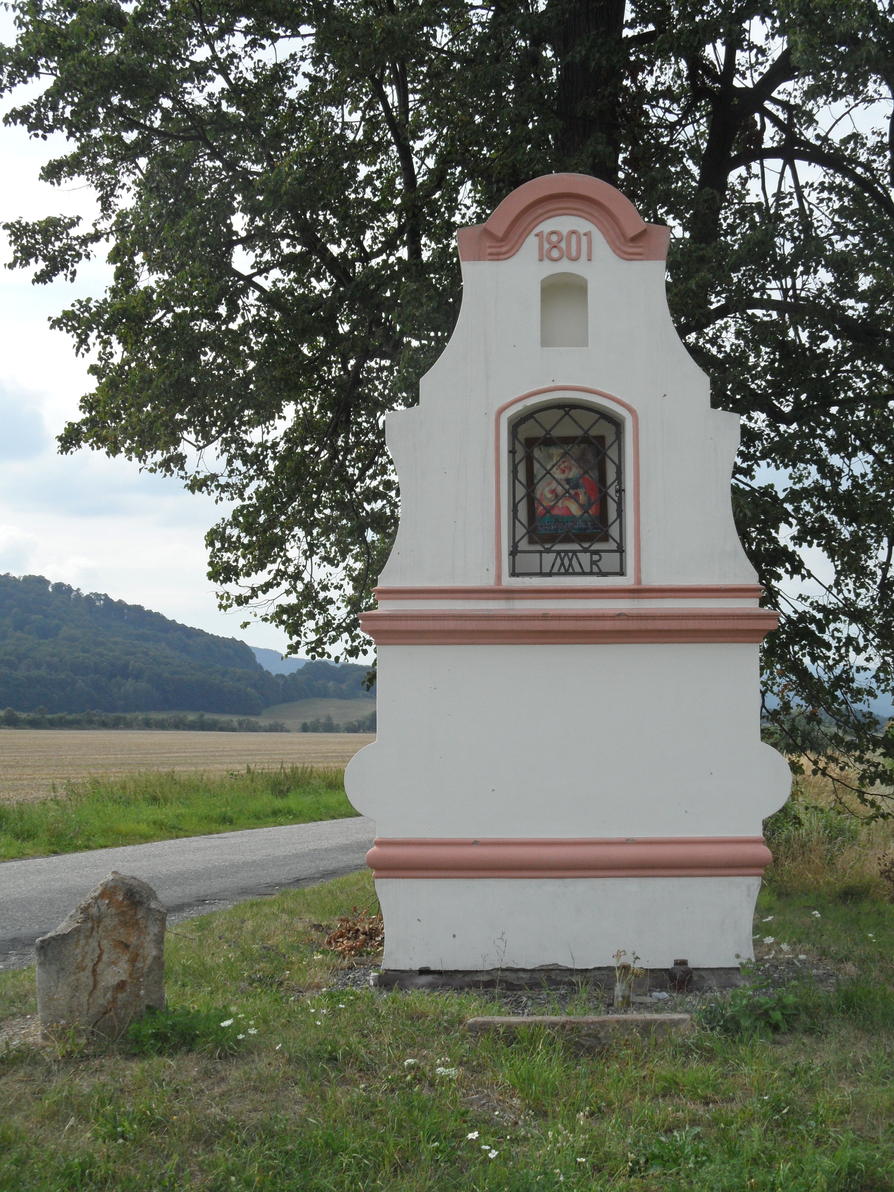 Tomíkovice: Calvary near Crossroads: Face View. Jeseník District, the Czech Republic.